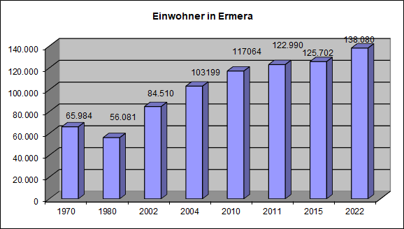 Population in Ermera/East Timor